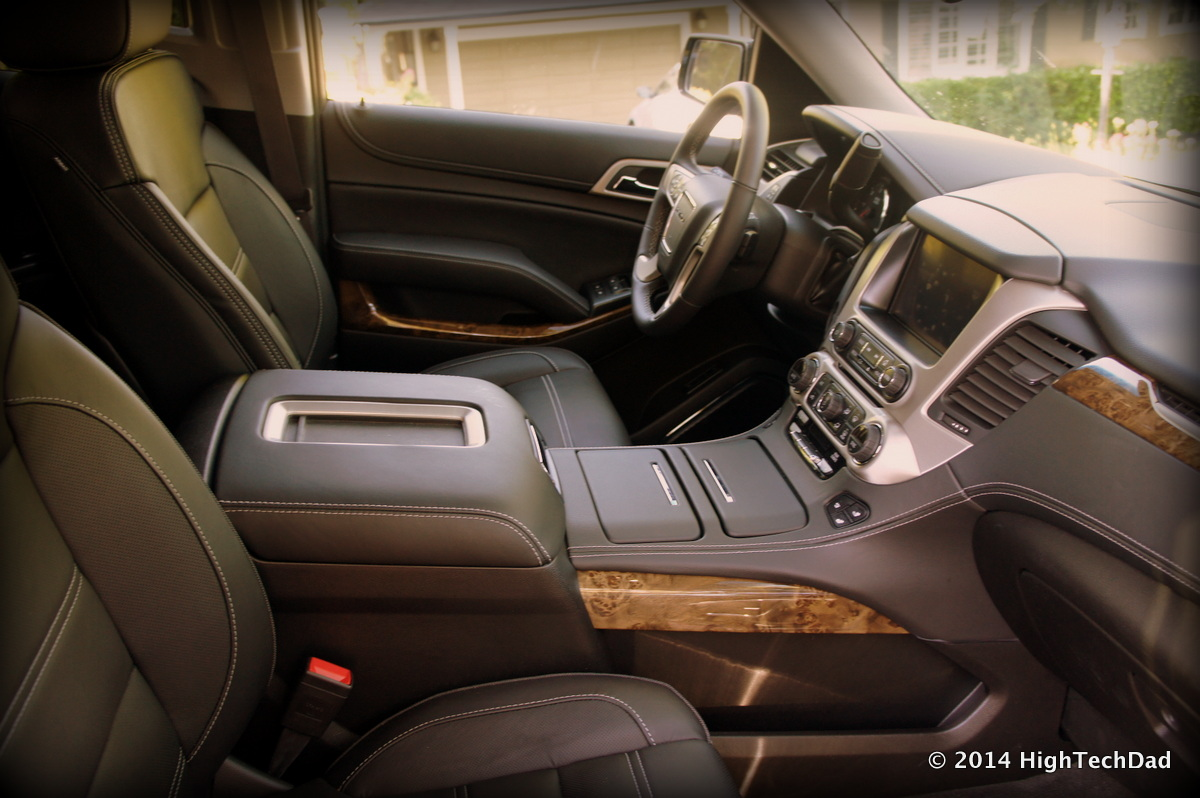 Photos from a 7-day test drive of the 2015 GMC Yukon Denali. Read more car reviews at